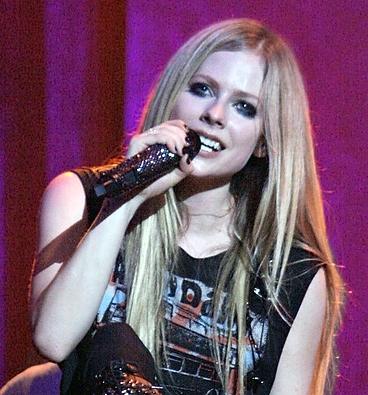 Avril Lavigne singing while sitting on a piano, during the Italy leg of her Black Star Tour on September 10, 2011. Photographed on a Canon EOS 1000D.